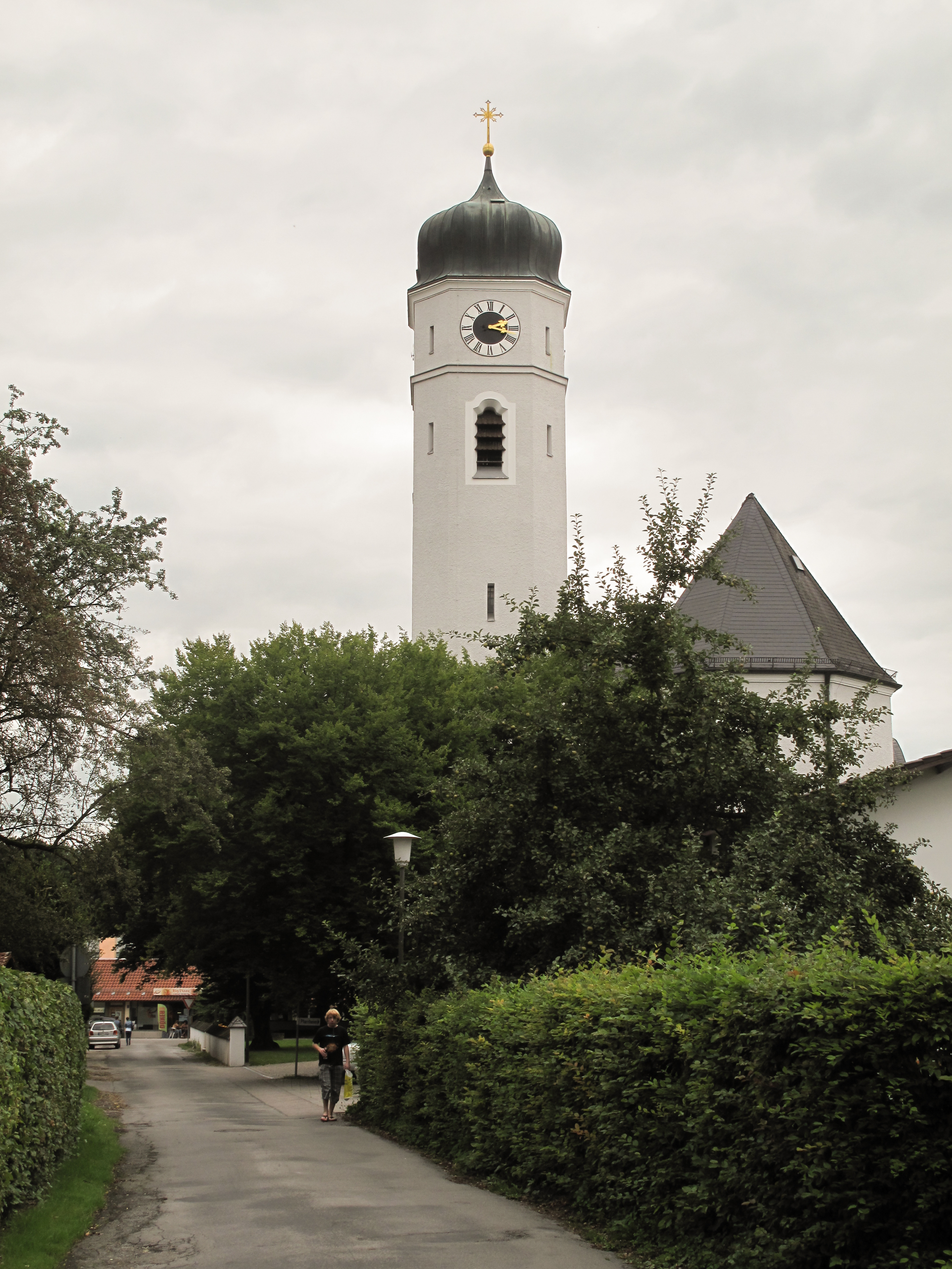 Bruckmühl, church: Pfarrkirche Herz Jesu